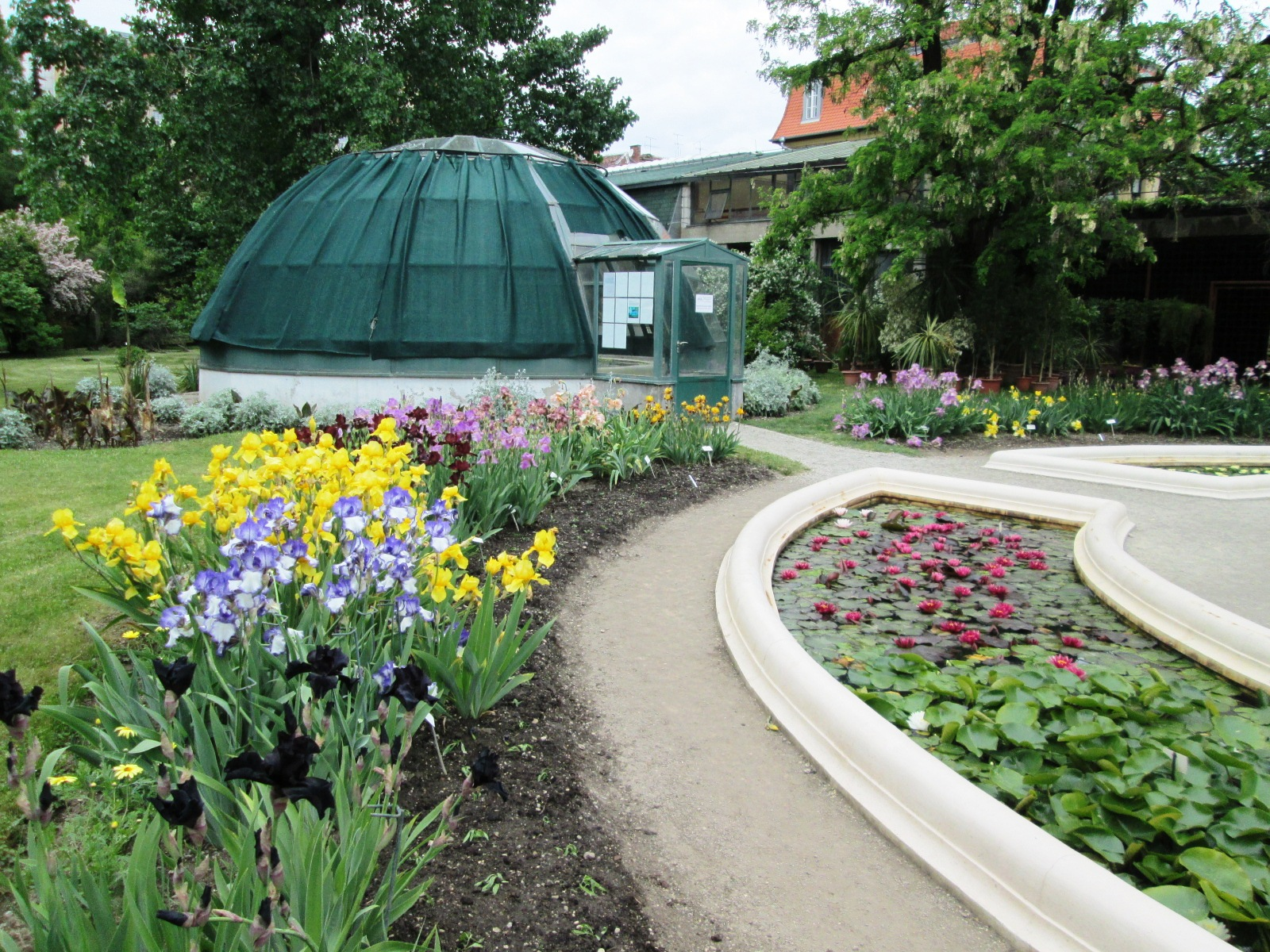 Botanical Garden Zagreb